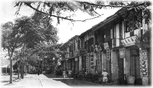 Gaya Street, Jesselton, British North Borneo in 1930.